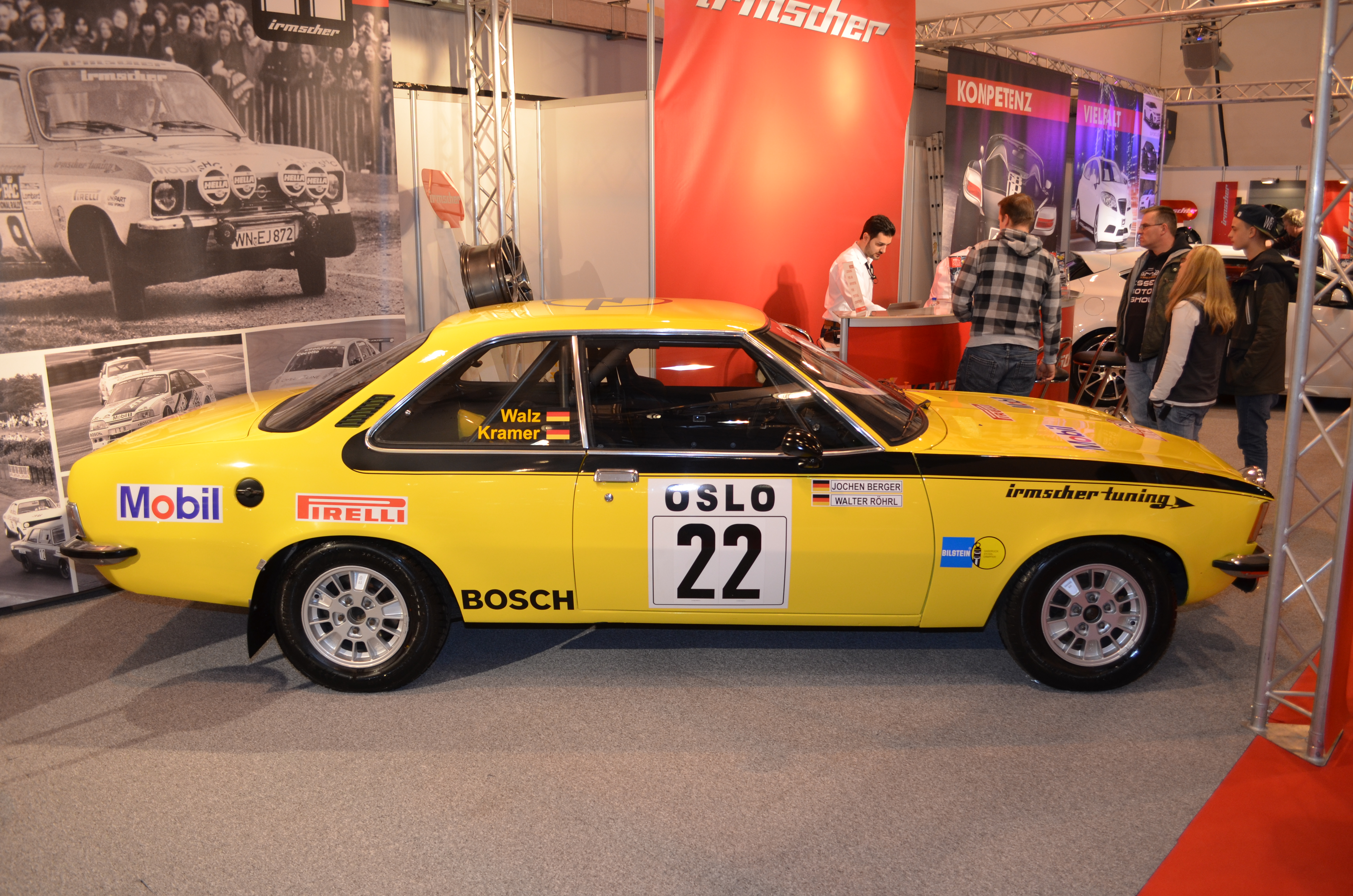 Motorshow_Essen_2013-11-30 10-39-29